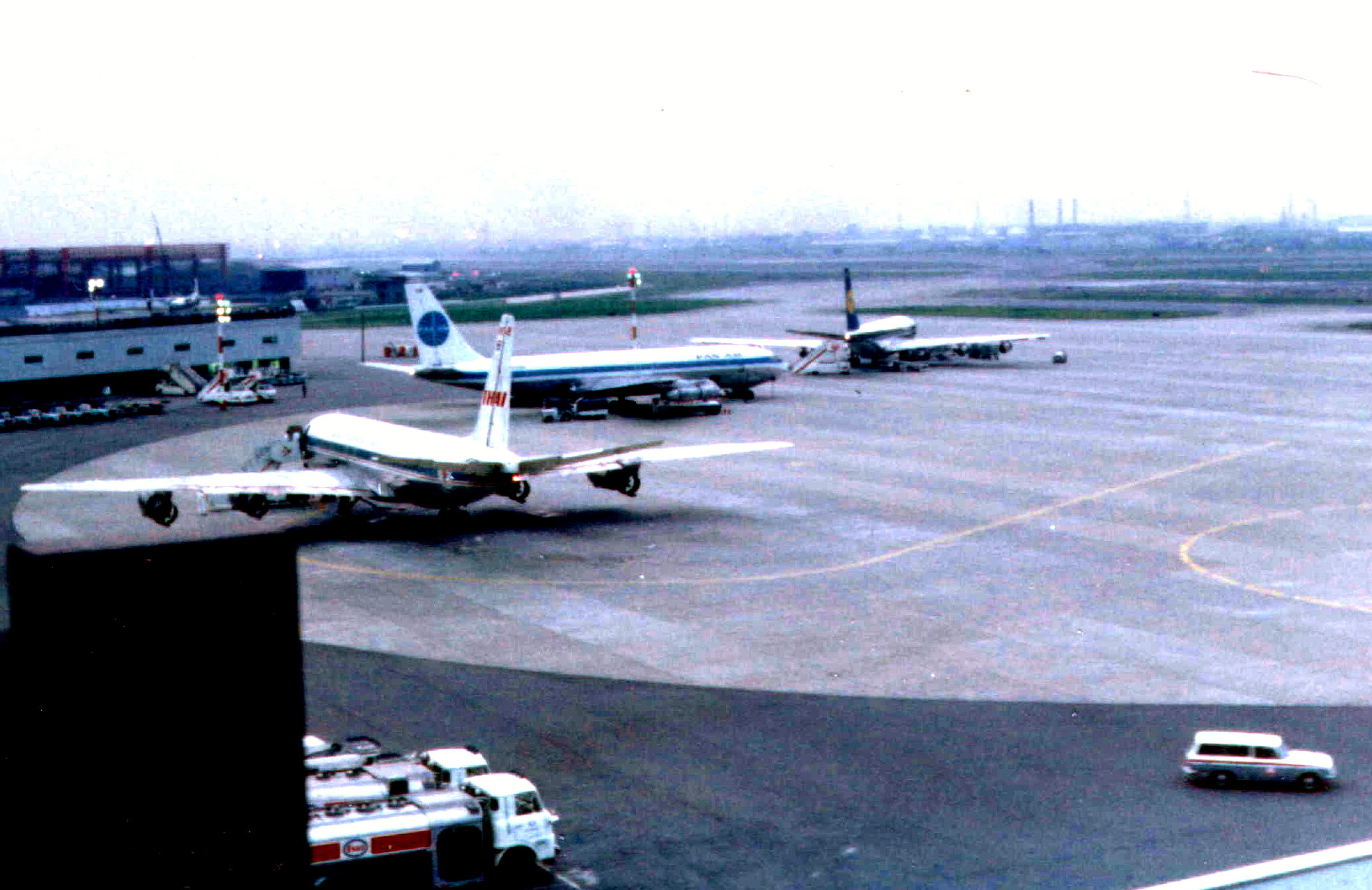 Osaka International Airport 1971, Thai Airways DC8-62, PanAm B707, Lufthansa B707